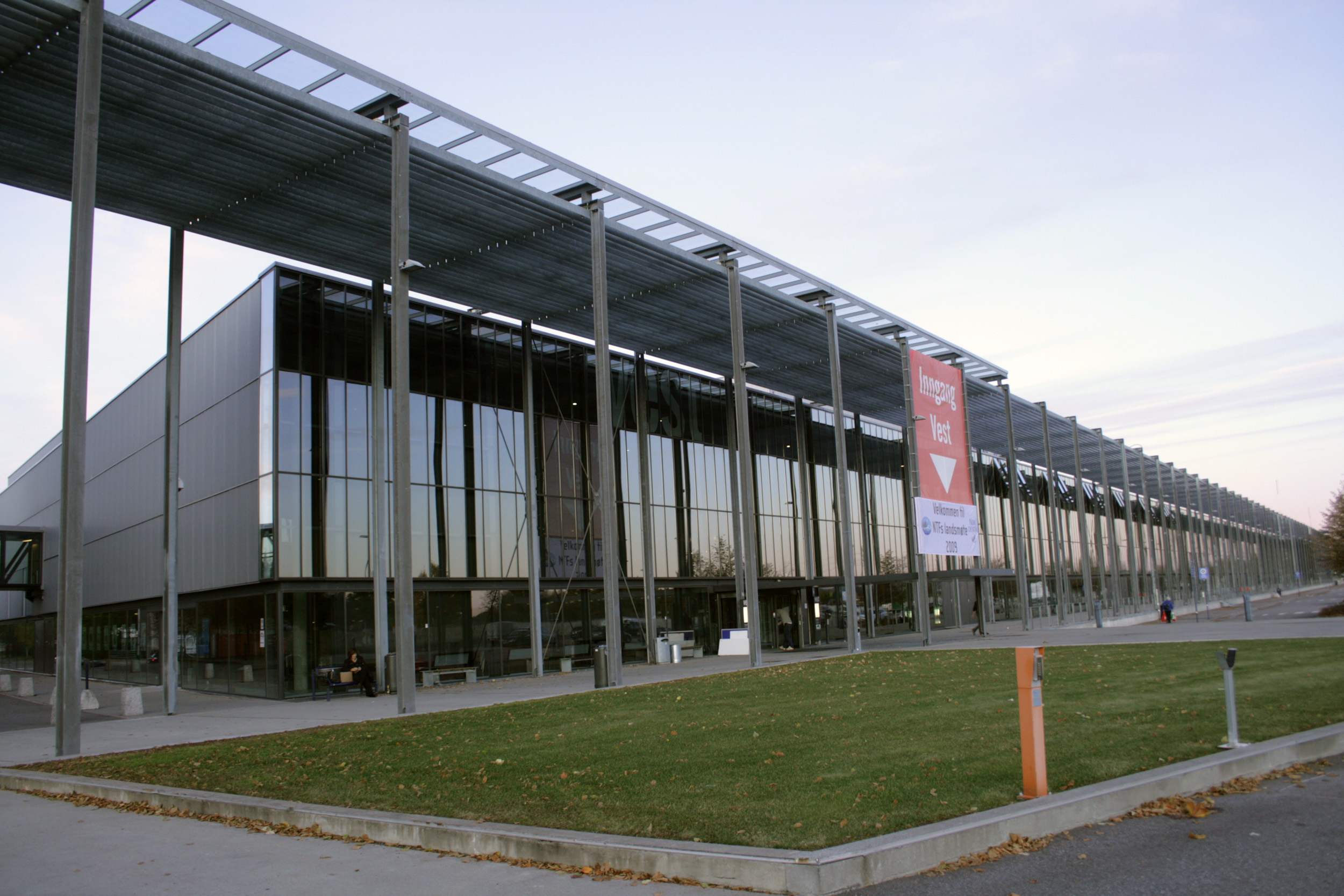 Norway Trade Fairs. Building at Lillestrøm. Architects: Arne Henriksen and Bystrup arkitekter